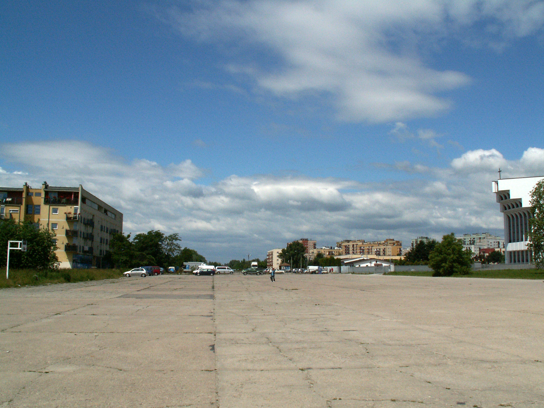 Old Airport Krakow-Rakowice-Czyzyny runway, Krakow Nowa Huta